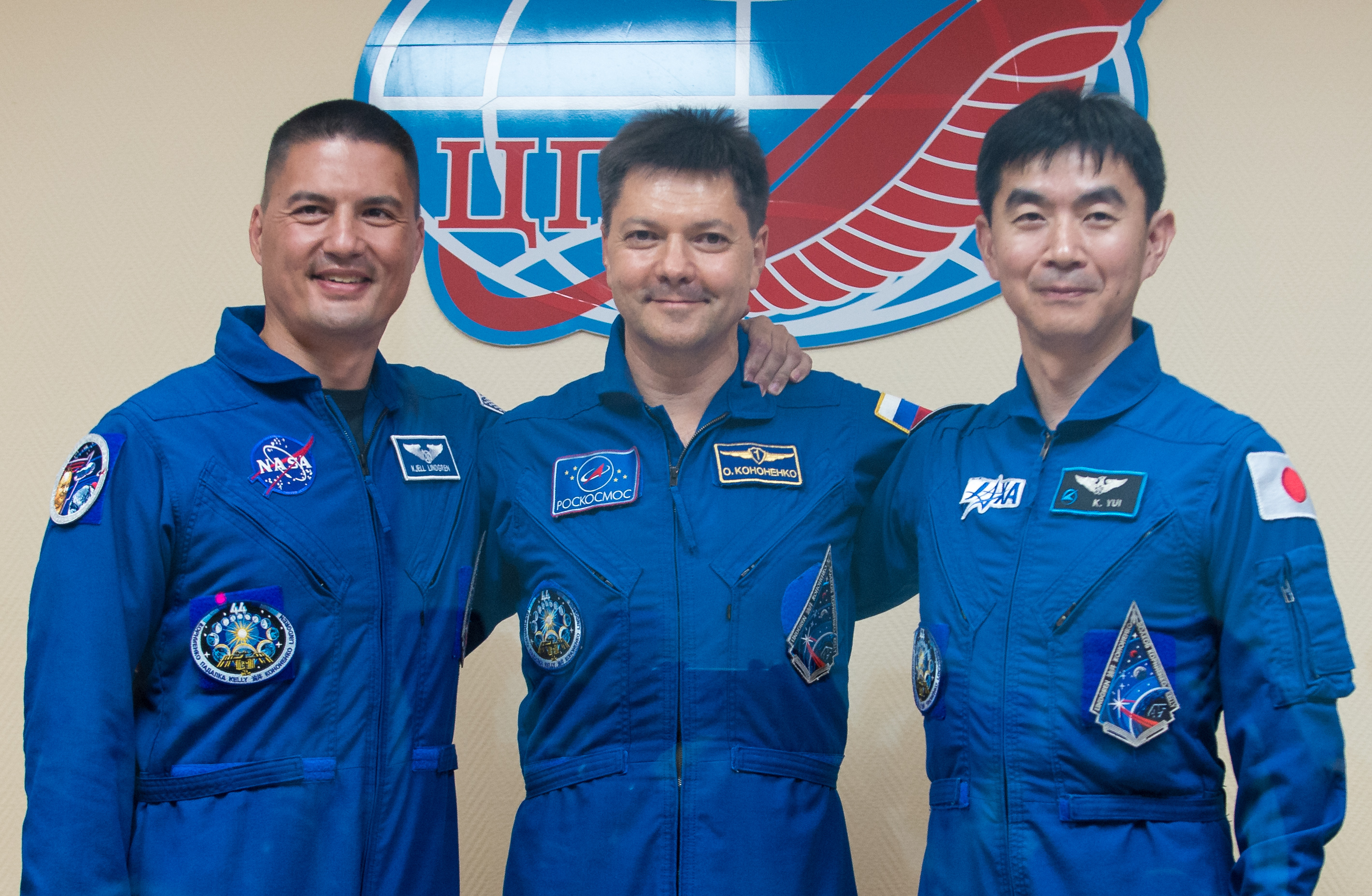 Expedition 44 crew members, Flight Engineer Kjell Lindgren of NASA, left; Soyuz Commander Oleg Kononenko of the Russian Federal Space Agency (Roscosmos), center; and Flight Engineer Kimiya Yui of the Japan Aerospace Exploration Agency (JAXA), right, pose for a photo at the conclusion of a press conference held at the Cosmonaut Hotel in Baikonur, Kazakhstan on Tuesday, July 21, 2015. The mission is set to launch July 23 from the Baikonur Cosmodrome.